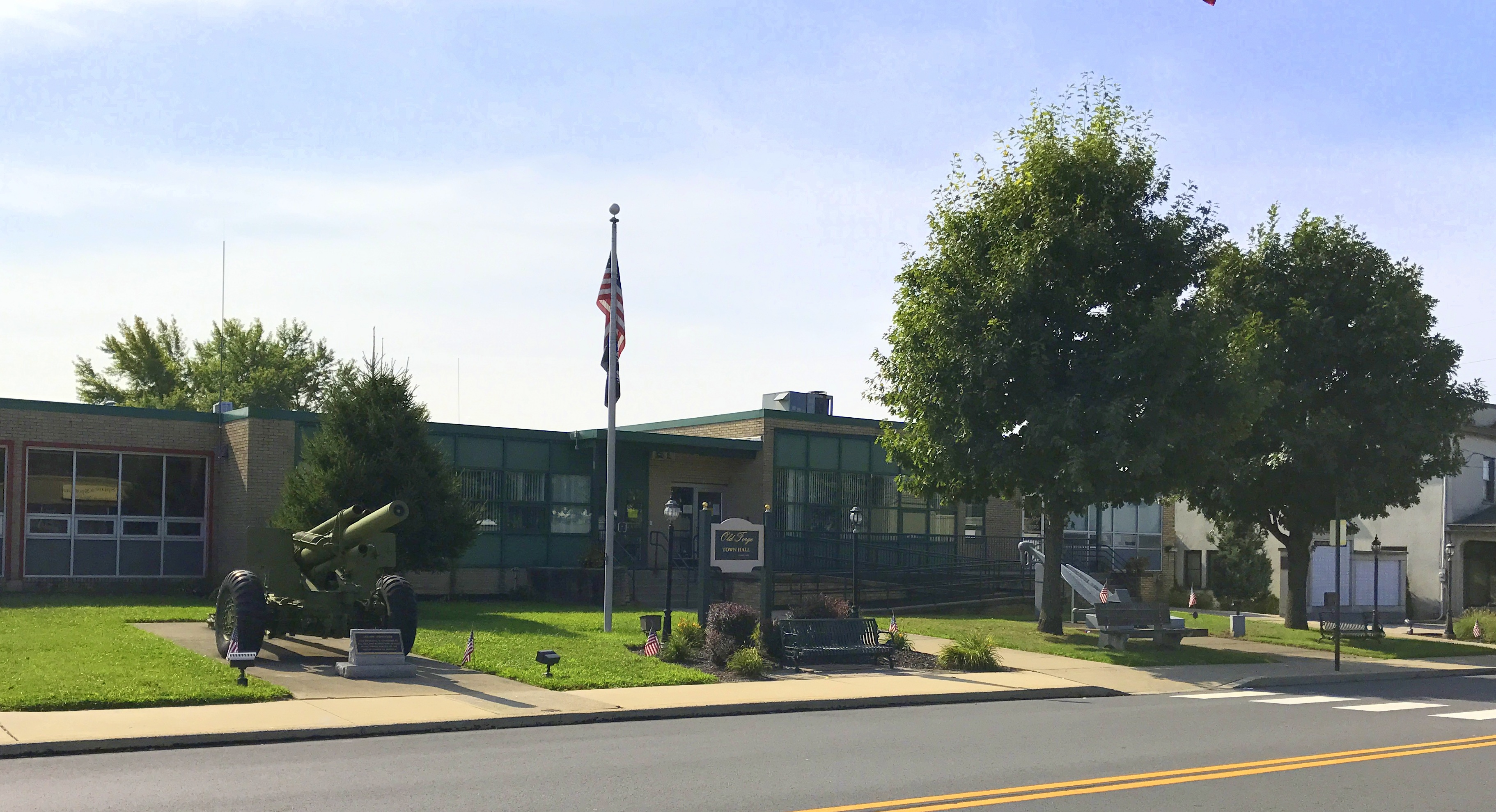 Borough of Old Forge Municipal Building